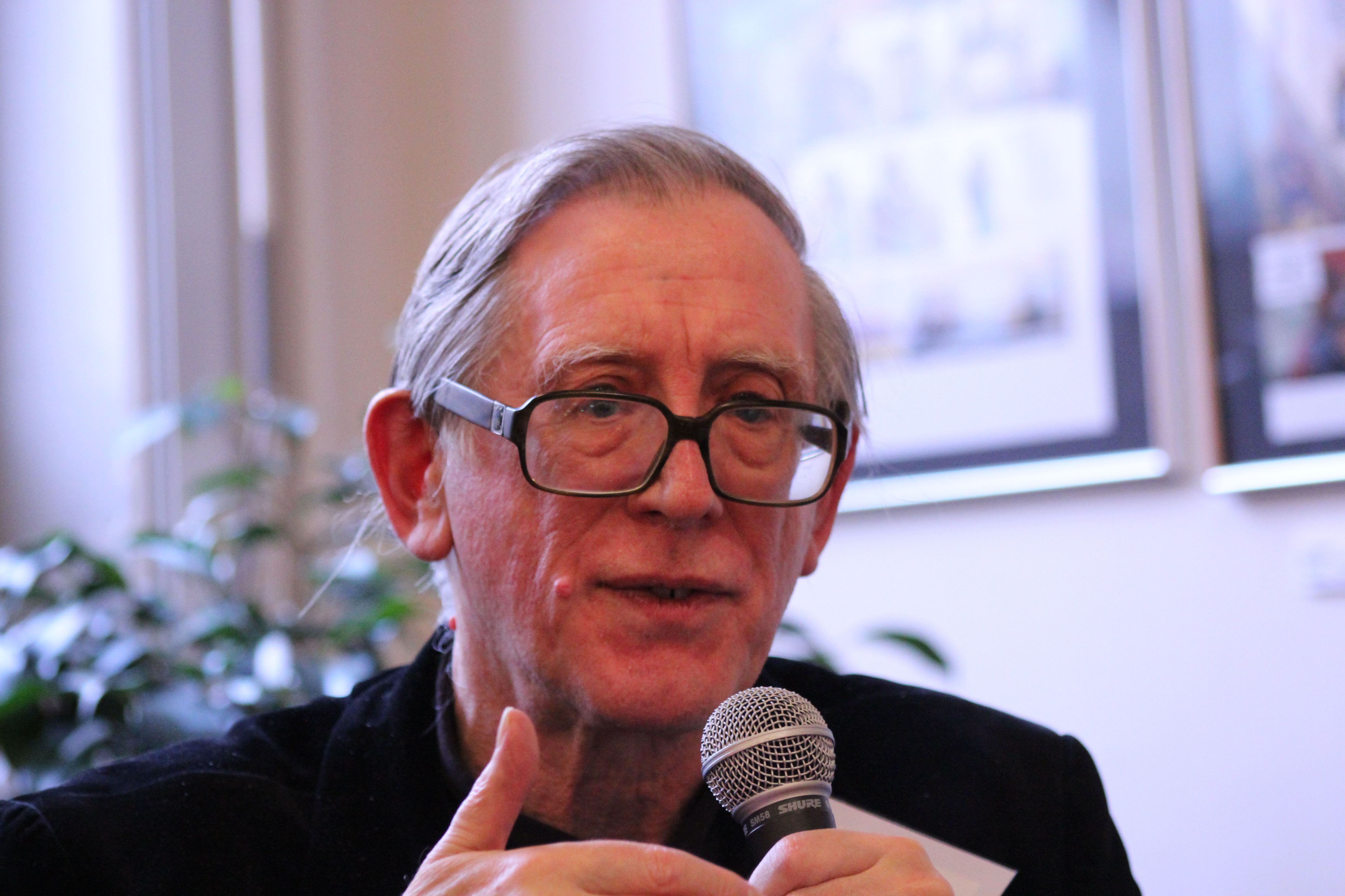 Brian Stableford guest of honor at the 13th Rencontres de l'Imaginaire on November, the 26th 2016 in Sèvres, France. Object location48° 49′ 29.24″ N, 2° 12′ 54.36″ E